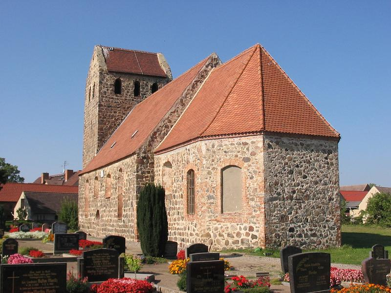 Stonechurch Mörz, start of construction probably in 12th century. The village Mörz is a part of the municipality Planetal in the district Potsdam Mittelmark, state Brandenburg, Germany. The village appertains to the natural preserve Naturpark Hoher Fläming.